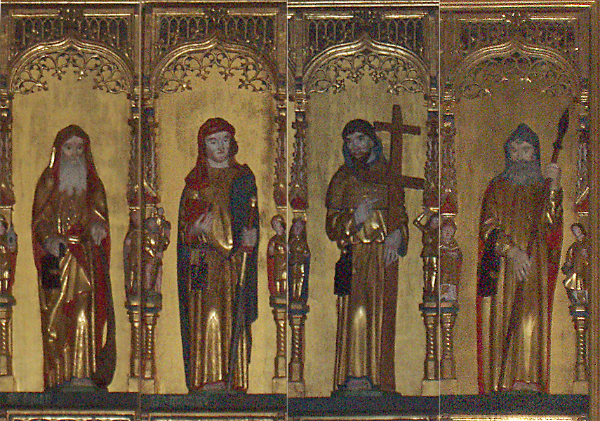 Composite of Image:Judas Thadæus.jpg, Image:Mathæus.jpg, Image:Filip.jpg and Image:Apostlen Thomas.jpg.